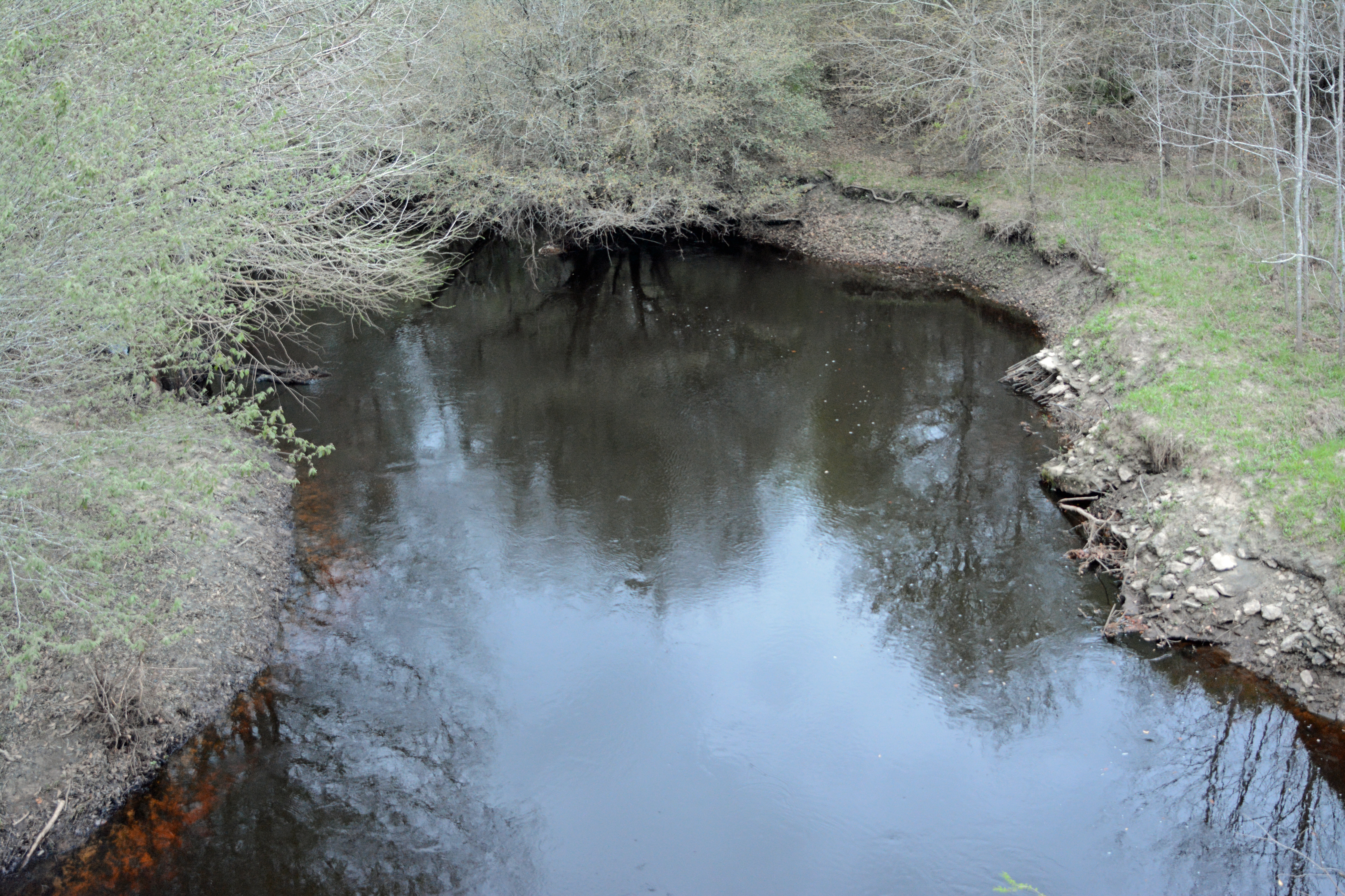 The Willacoochee River at the border between Atkinson County and Berrien County, at US Highway 82, Georgia, U.S.